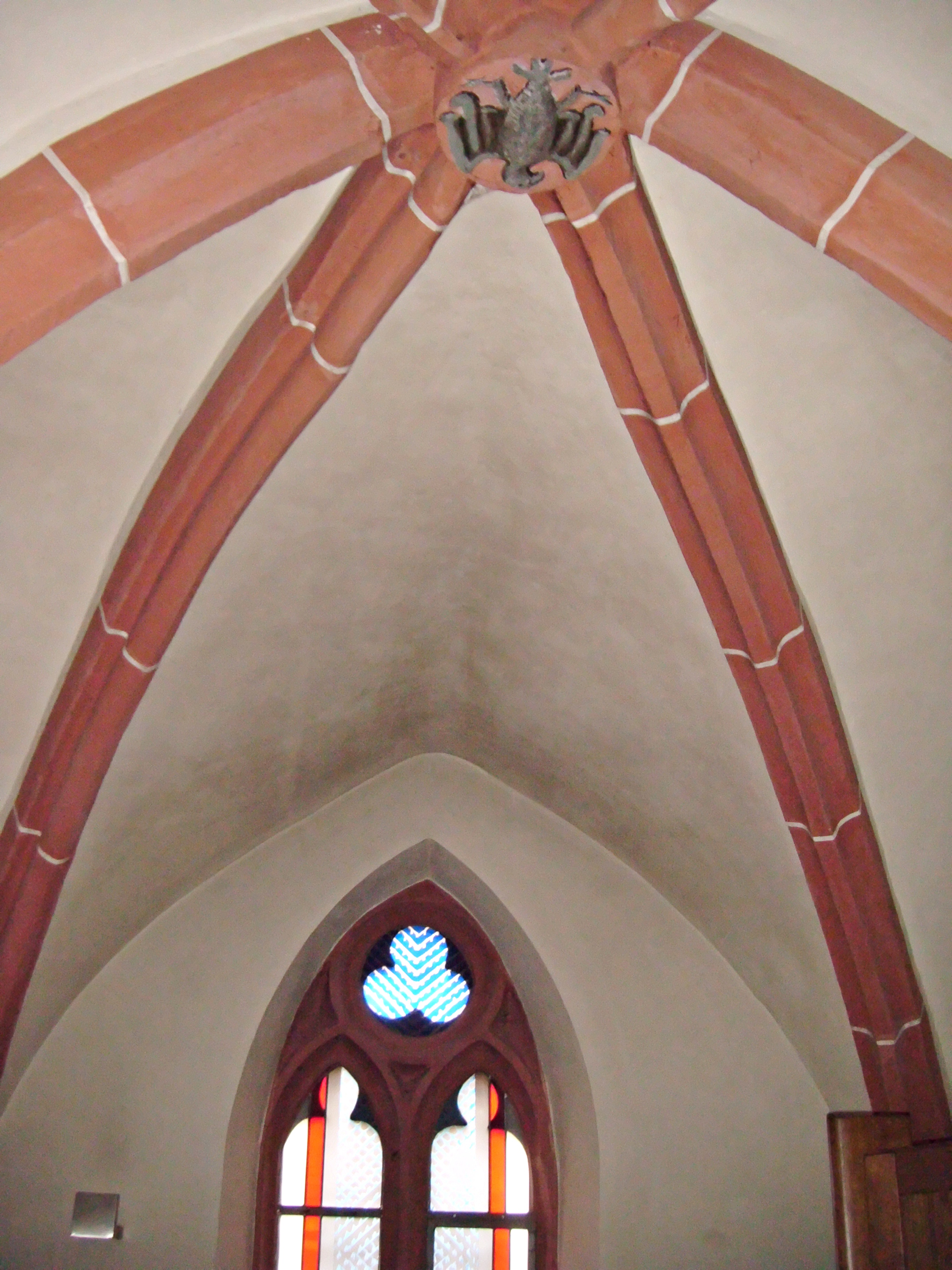 St. Stephan Sausenheim, Katharinenkapelle innen